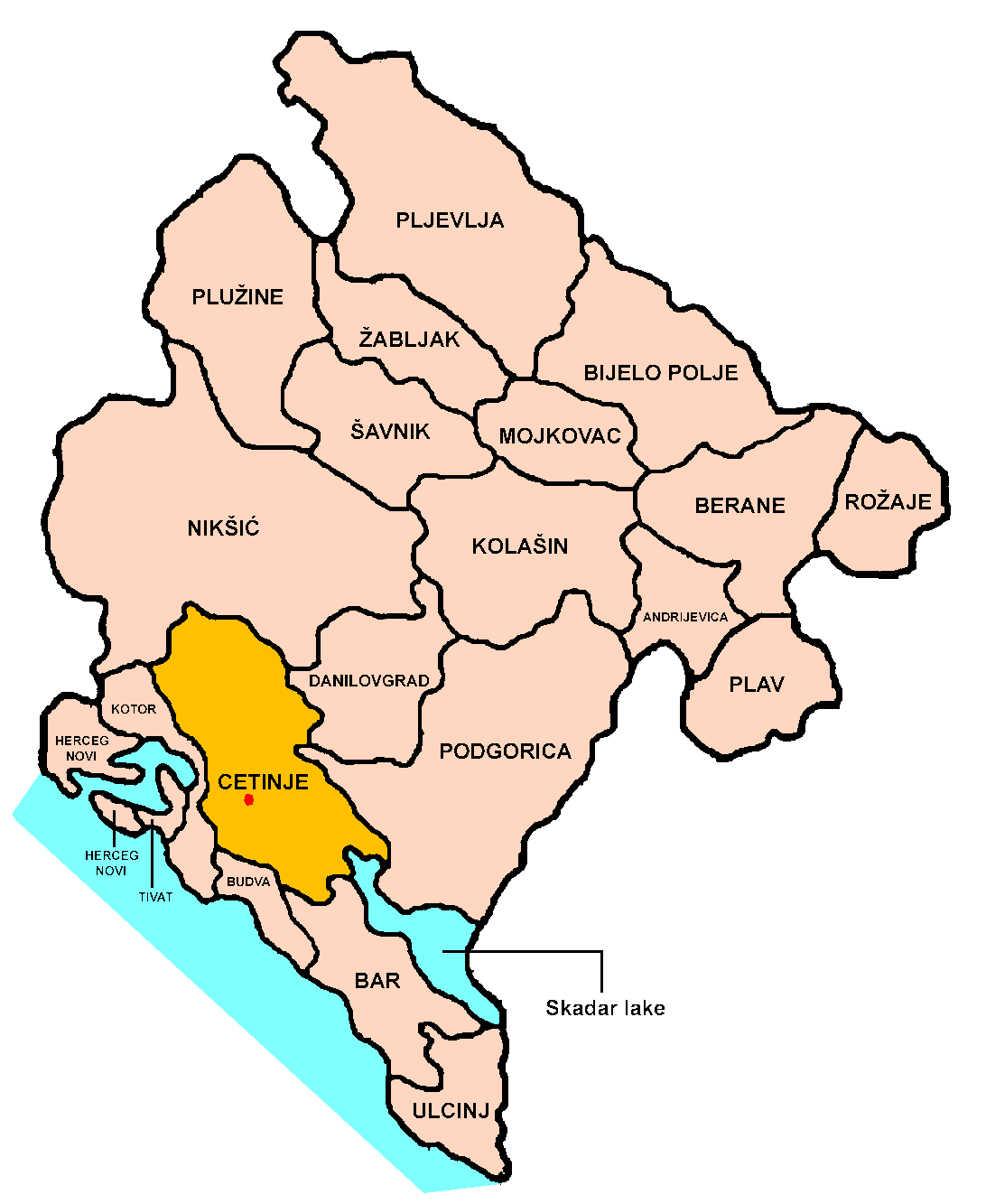 Location of Cetinje town and municipality within Montenegro